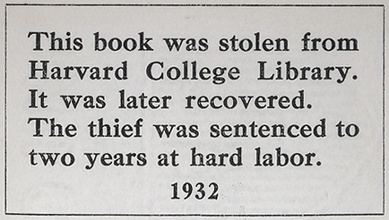 Warning bookplate appearing in certain books in the Harvard College Library system.